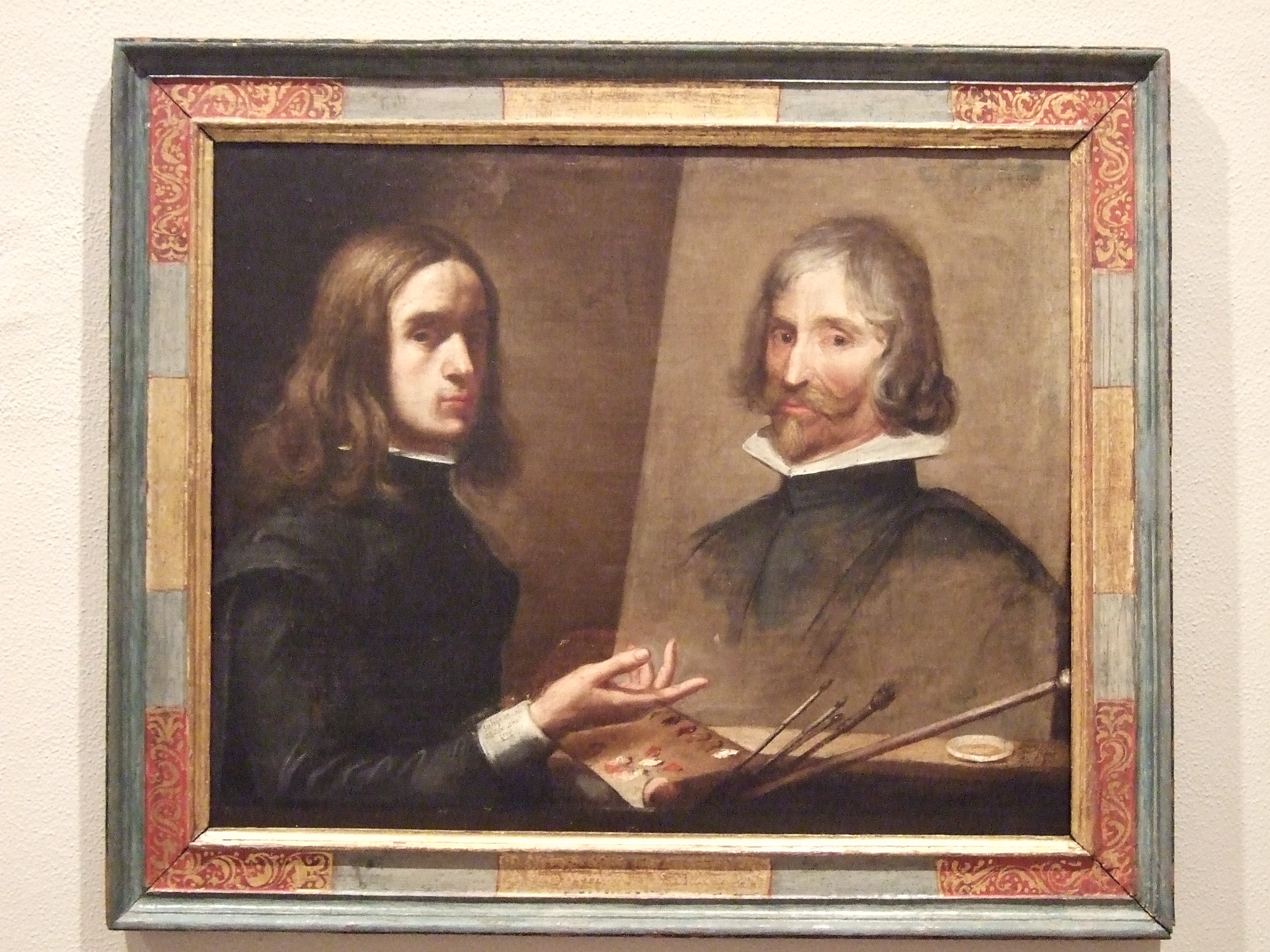 Selfprotrait while painting his father Daniel Martínez